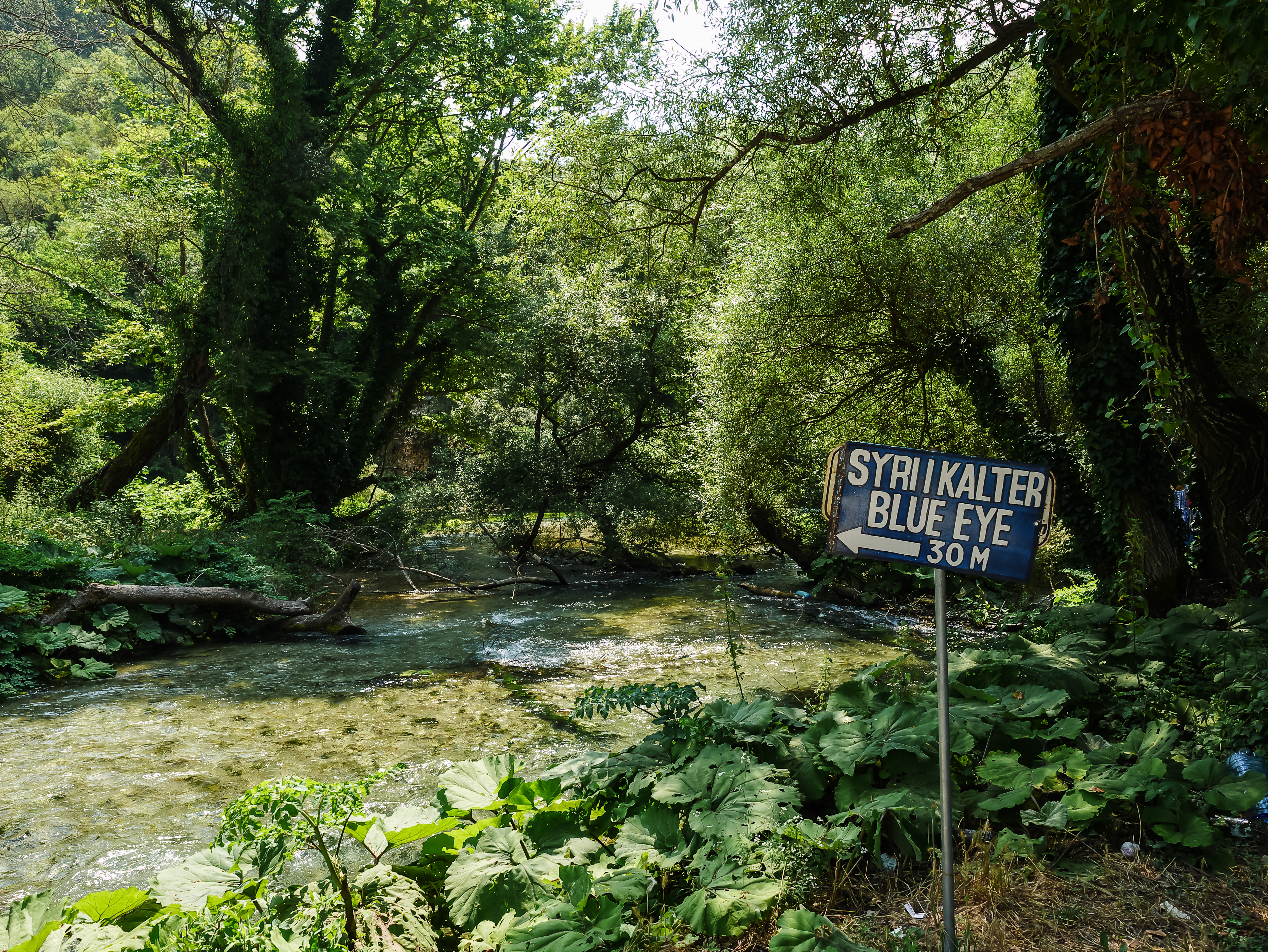 Blue Eye Spring Albania